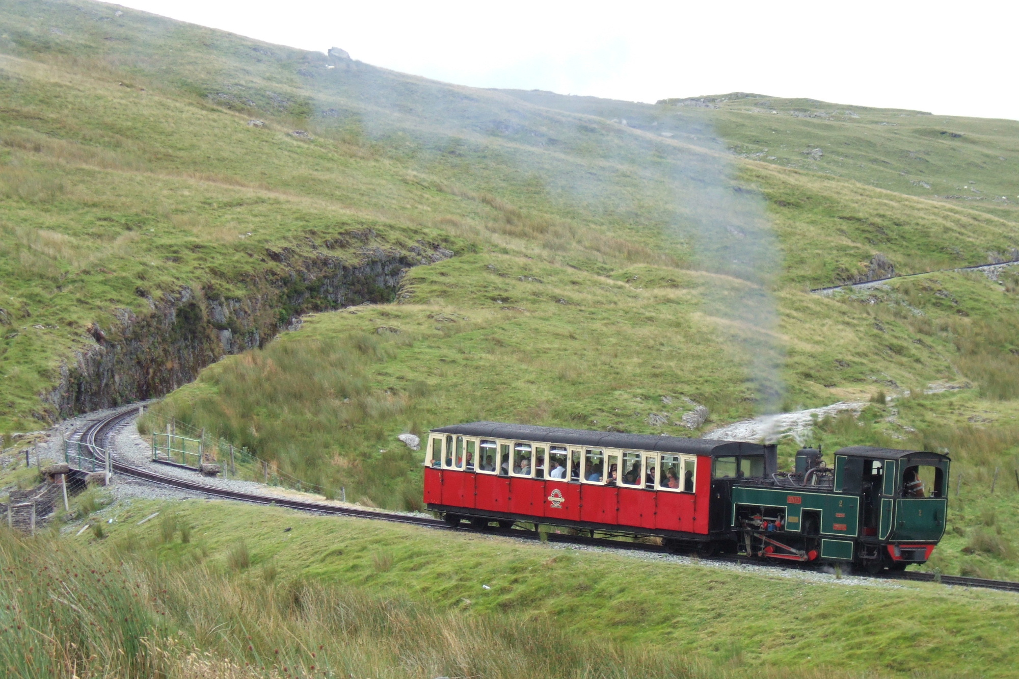 Snowdon Mountain Railway No.2 climbing towards Halfway Station. 19th July 2005 Photographer - A.M.Hurrell Camera - Fuji FinePix F10 Modified - Trimmed and file size reduced using Finepix Software